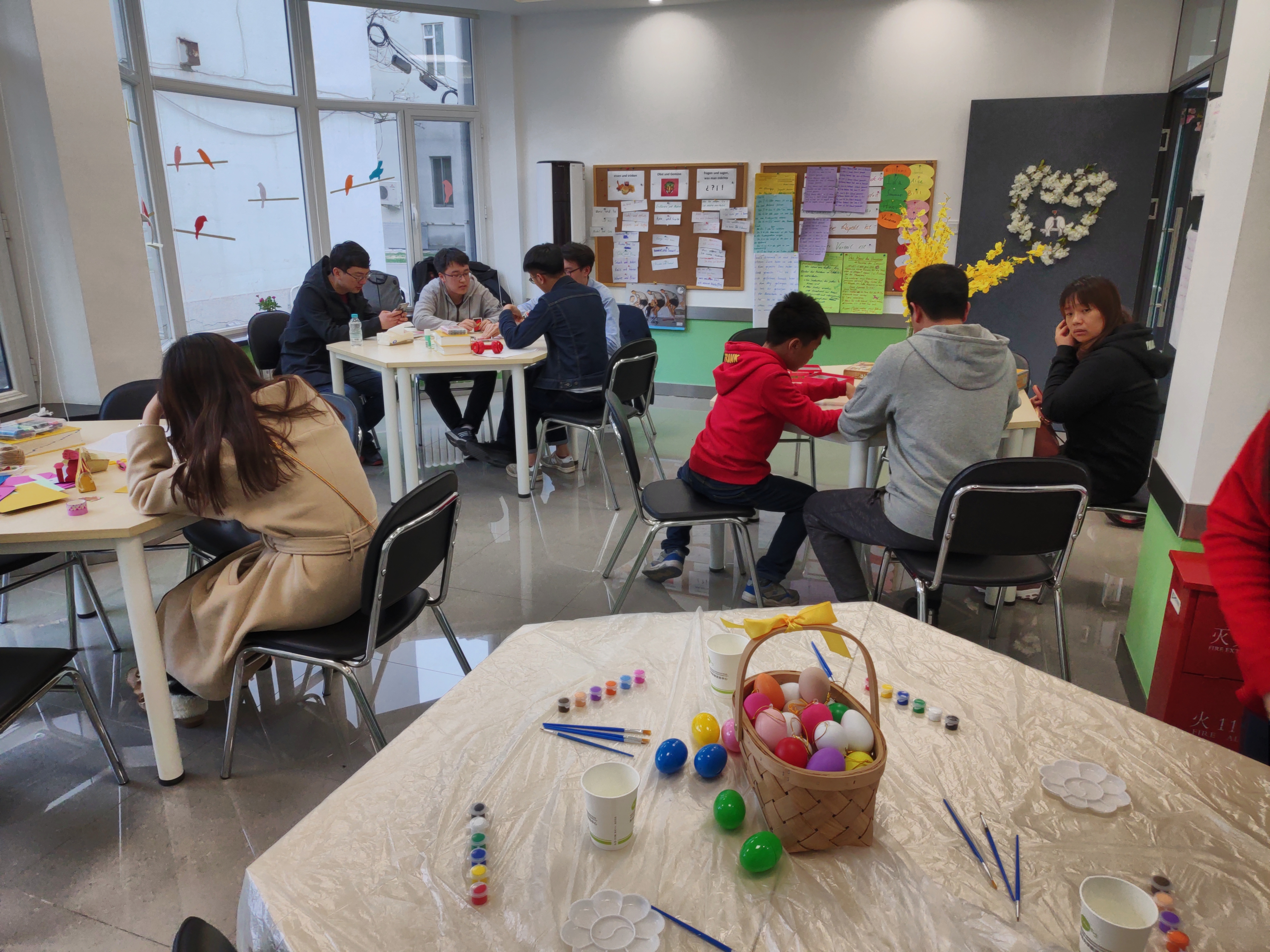 Goethe-Sprachlernzentrum,_Shenyang_2019